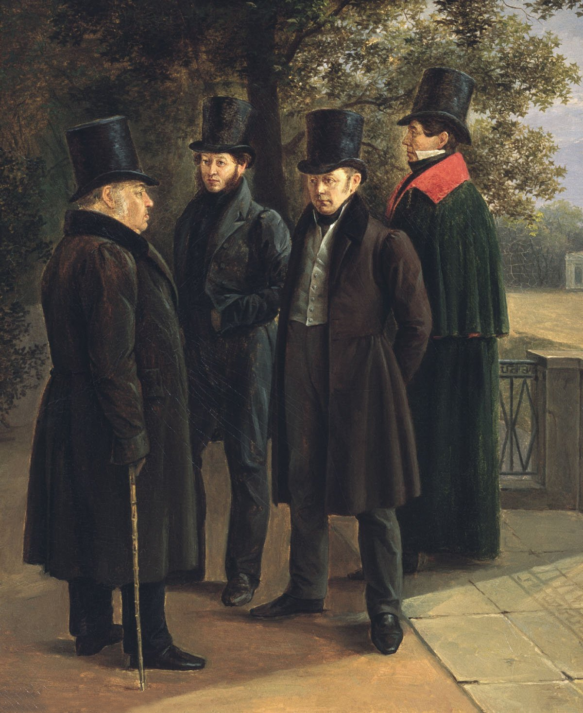 Painted portraits of writers from Russia - Pushkin, Krylov, Zhukovsky and Gnedich in Summer Garden.